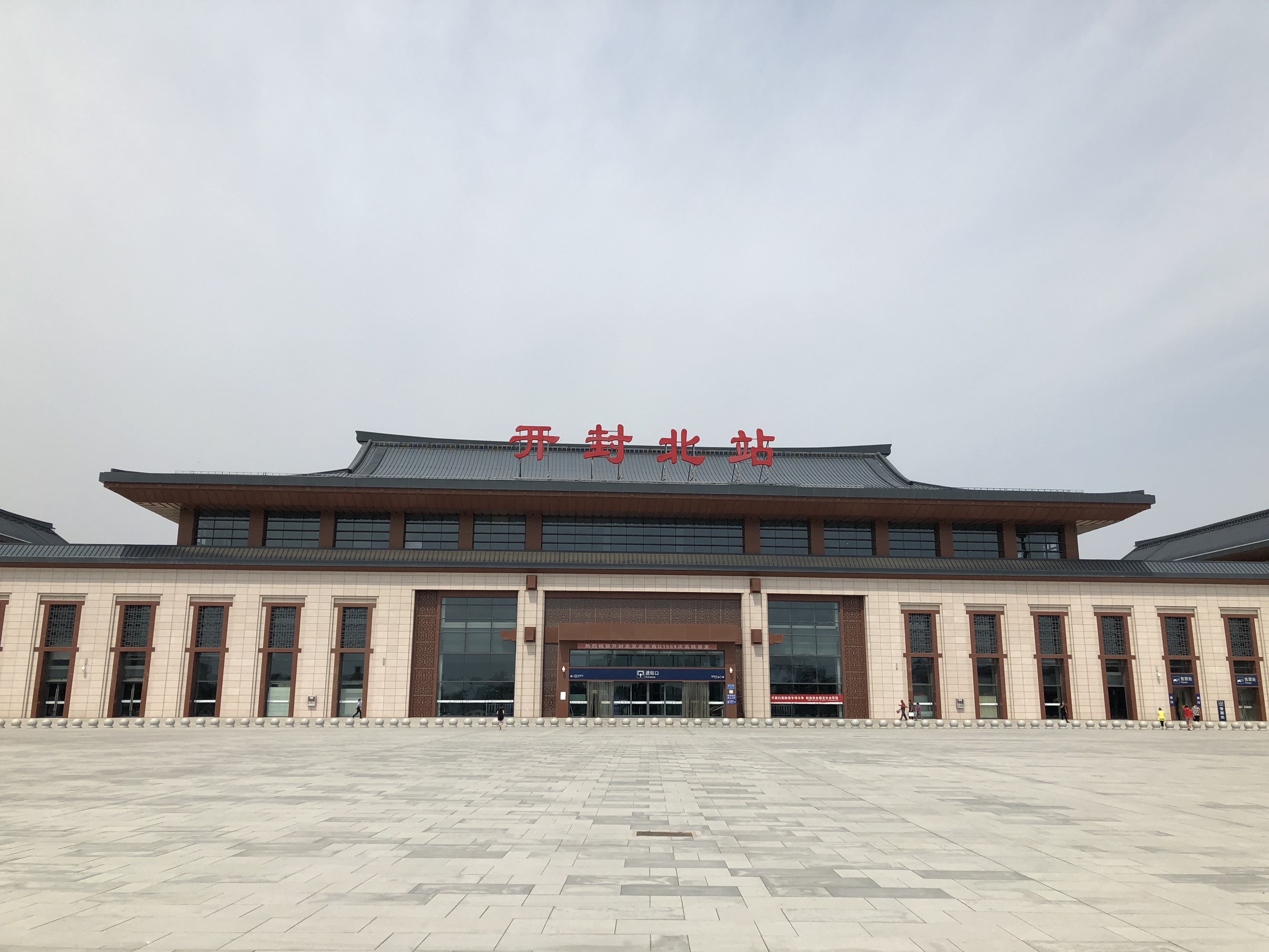 Kaifengbei Railway Station